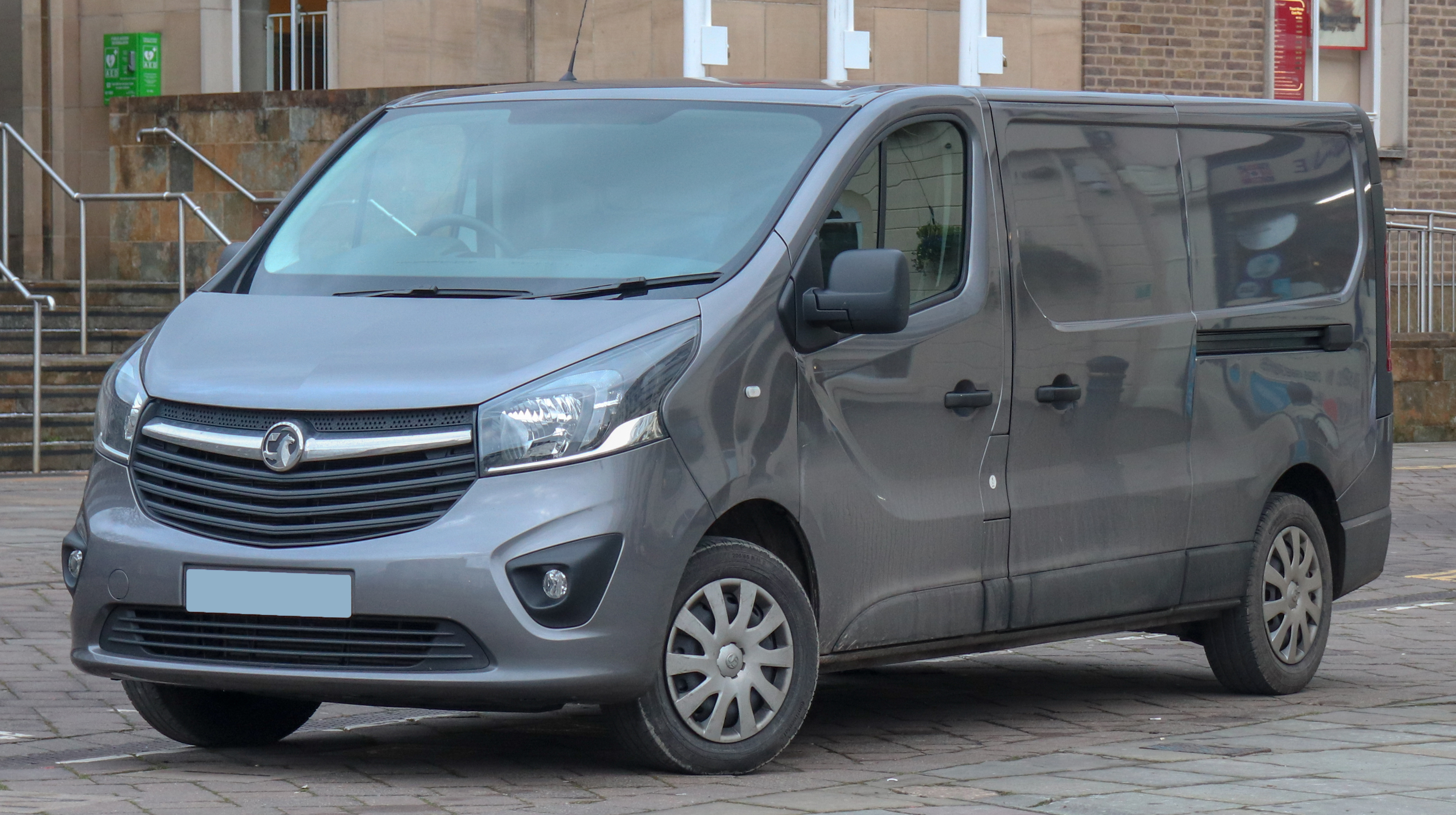 2018 Vauxhall Vivaro 2900 Sportive CDTi 1.6 Taken in Warwick